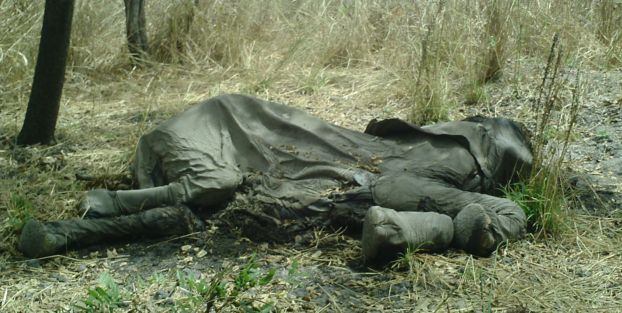 Location of poached elephant carcass in Bouba Ndjida National Park in Cameroon,.